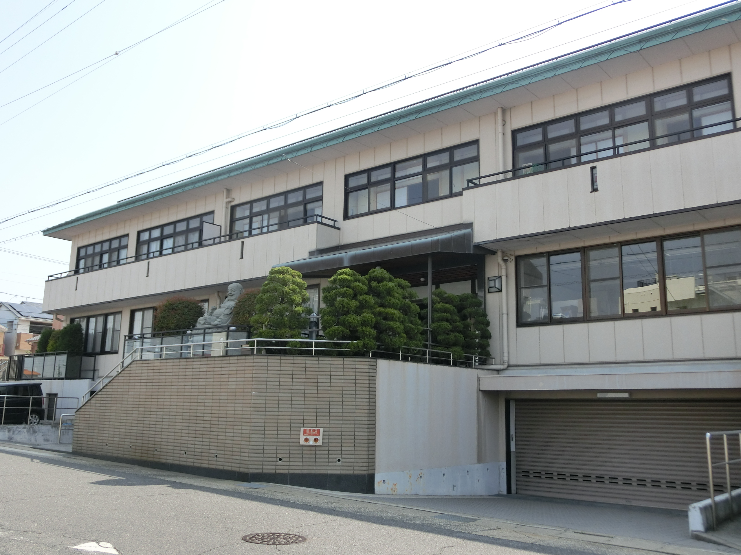 Dotokukaikan Headquarters